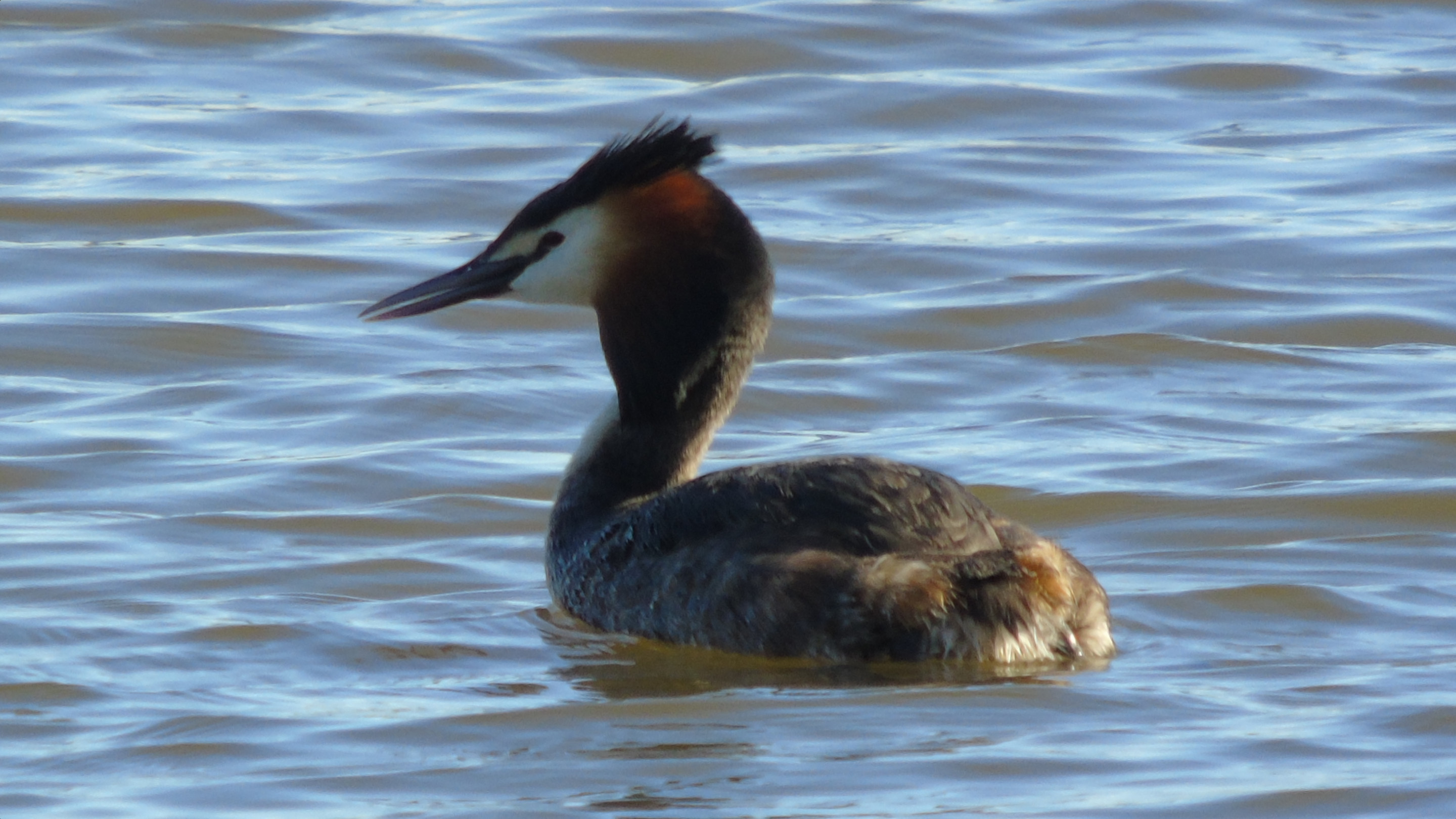 Great crested grebe at Helsinki Töölönlahti 15.4.2019.